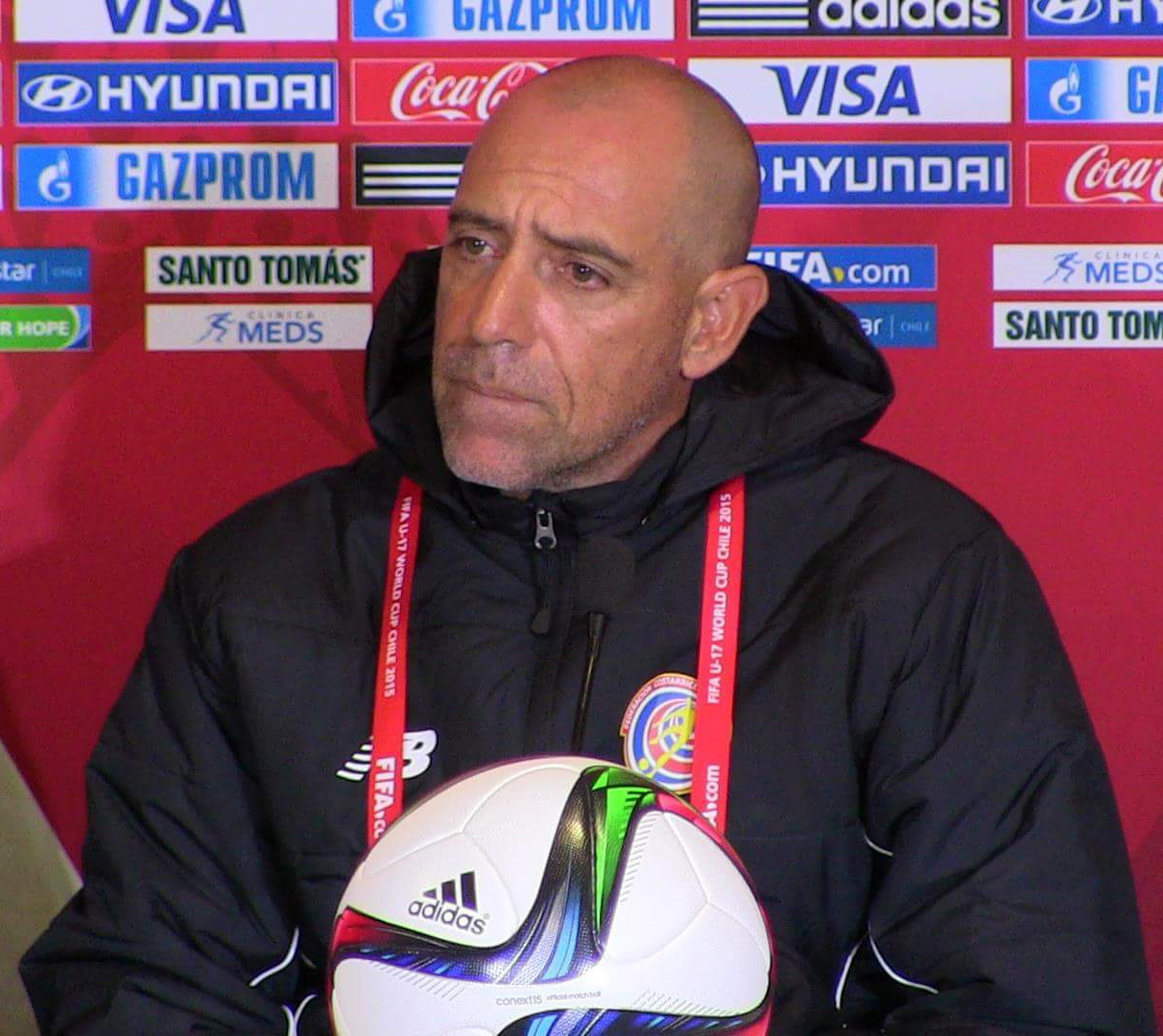 Marcelo Popeye Herrera, as a coach of U-17 Costa Rica national team